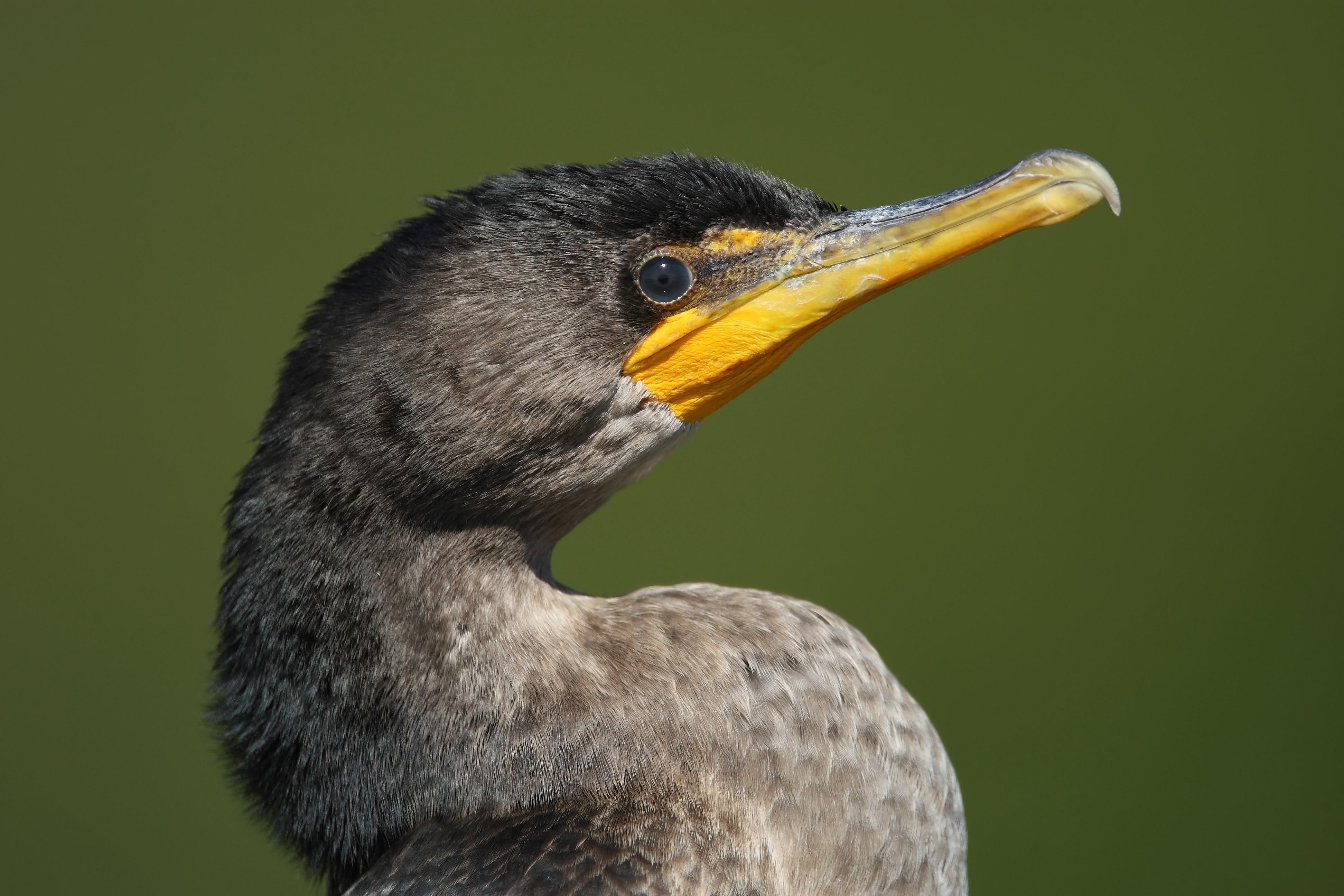 Double-crested Cormorant - near Miller Lake, Ontario, Canada.